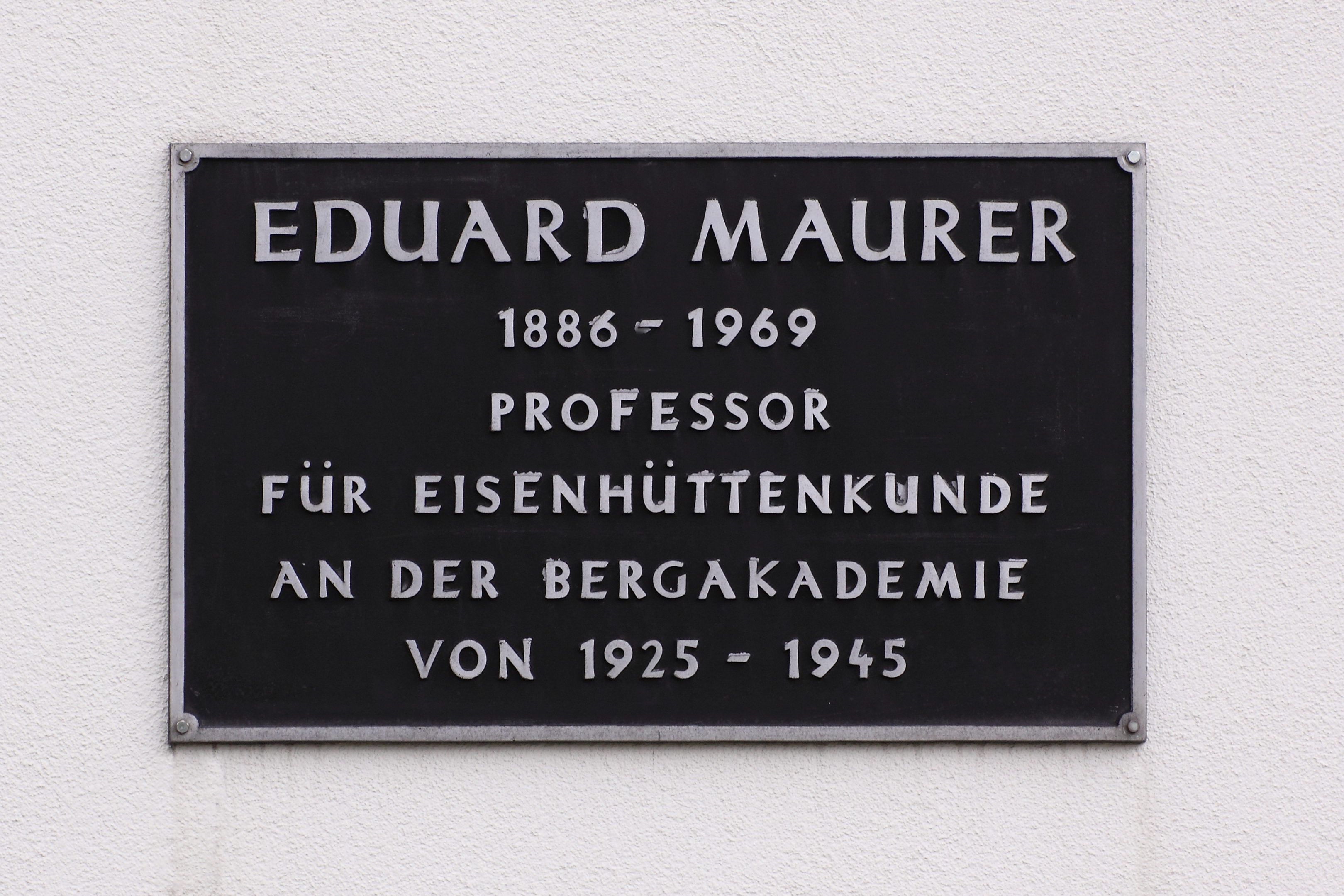 Eduard Maurer, commemorative plaque in Freiberg